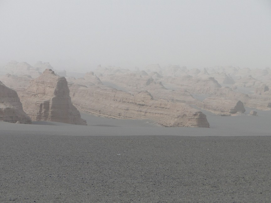 Gobi desert near Dunhuang